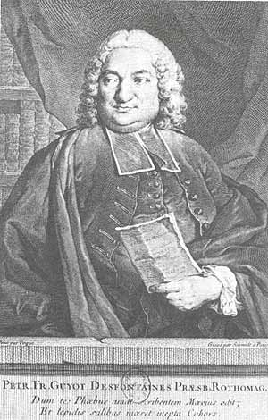 Portrait of Pierre François Guyot Desfontaines (1685-1749), French writer